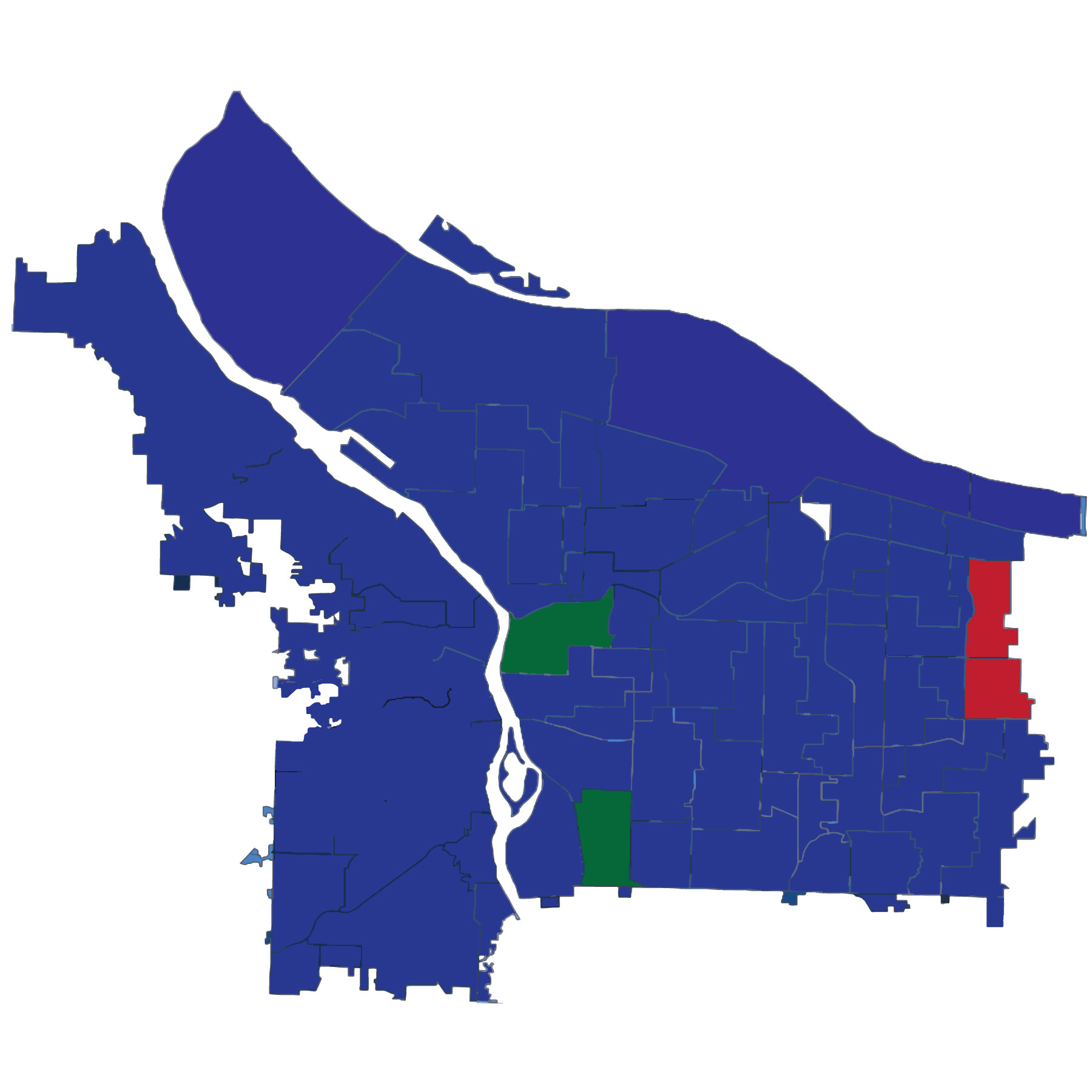 Blue denotes precincts won by Ted Wheeler, Green denoted precincts won by Sarah Iannarone, Red denotes precincts won by Wheeler with Bruce Broussard in close second.